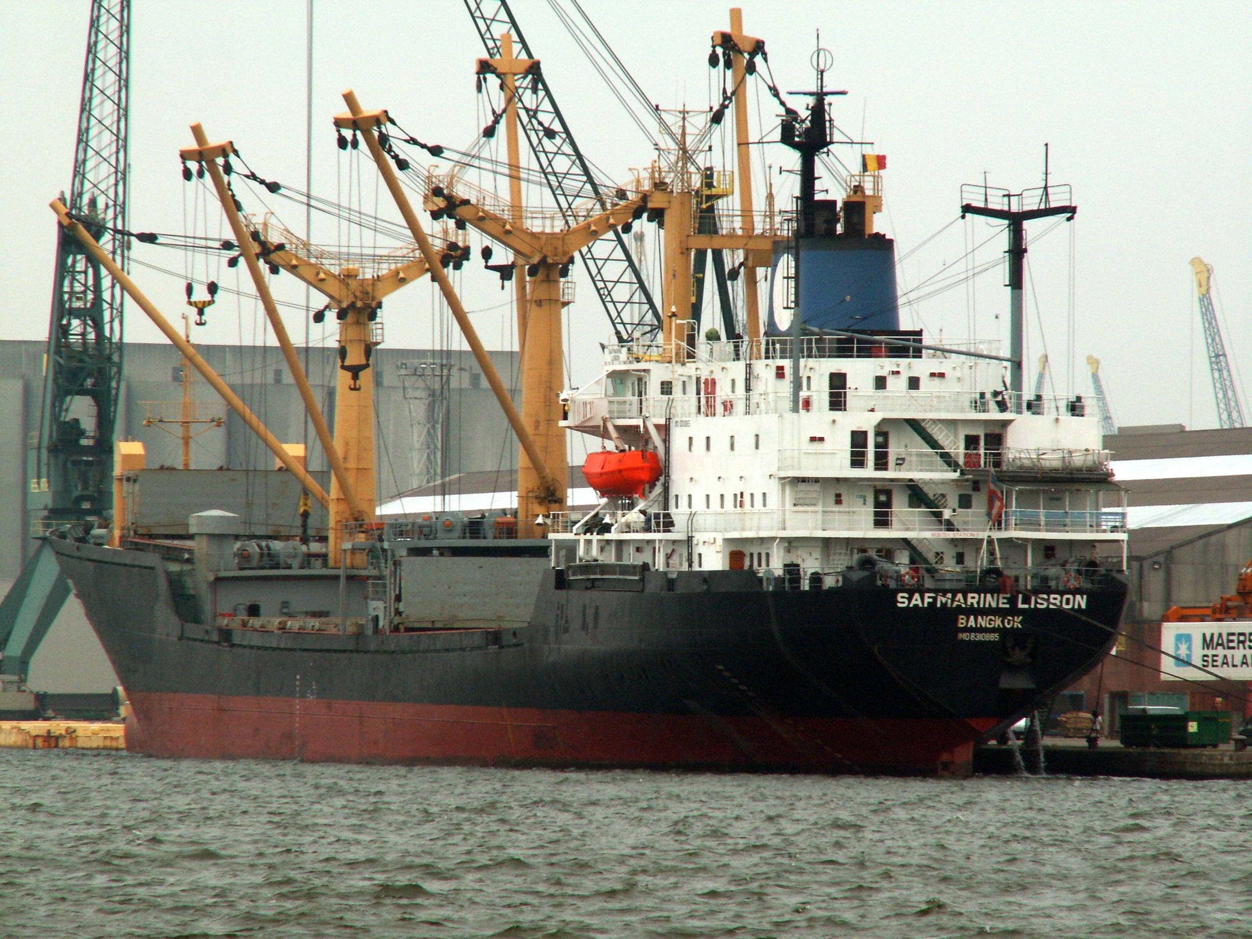 Safmarine Lisbon - IMO 8310865 - Callsign HSOO. Safmarine Lisbon - IMO 8310865